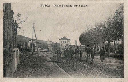 Busca, viale Stazione